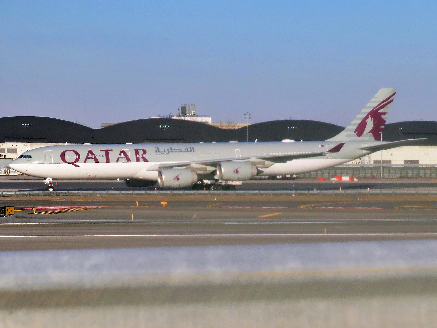 A Qatar Amiri Flight Airbus A340-500, recently repainted into a billboard-style livery, is parked on the north ramp at John F. Kennedy International Airport.